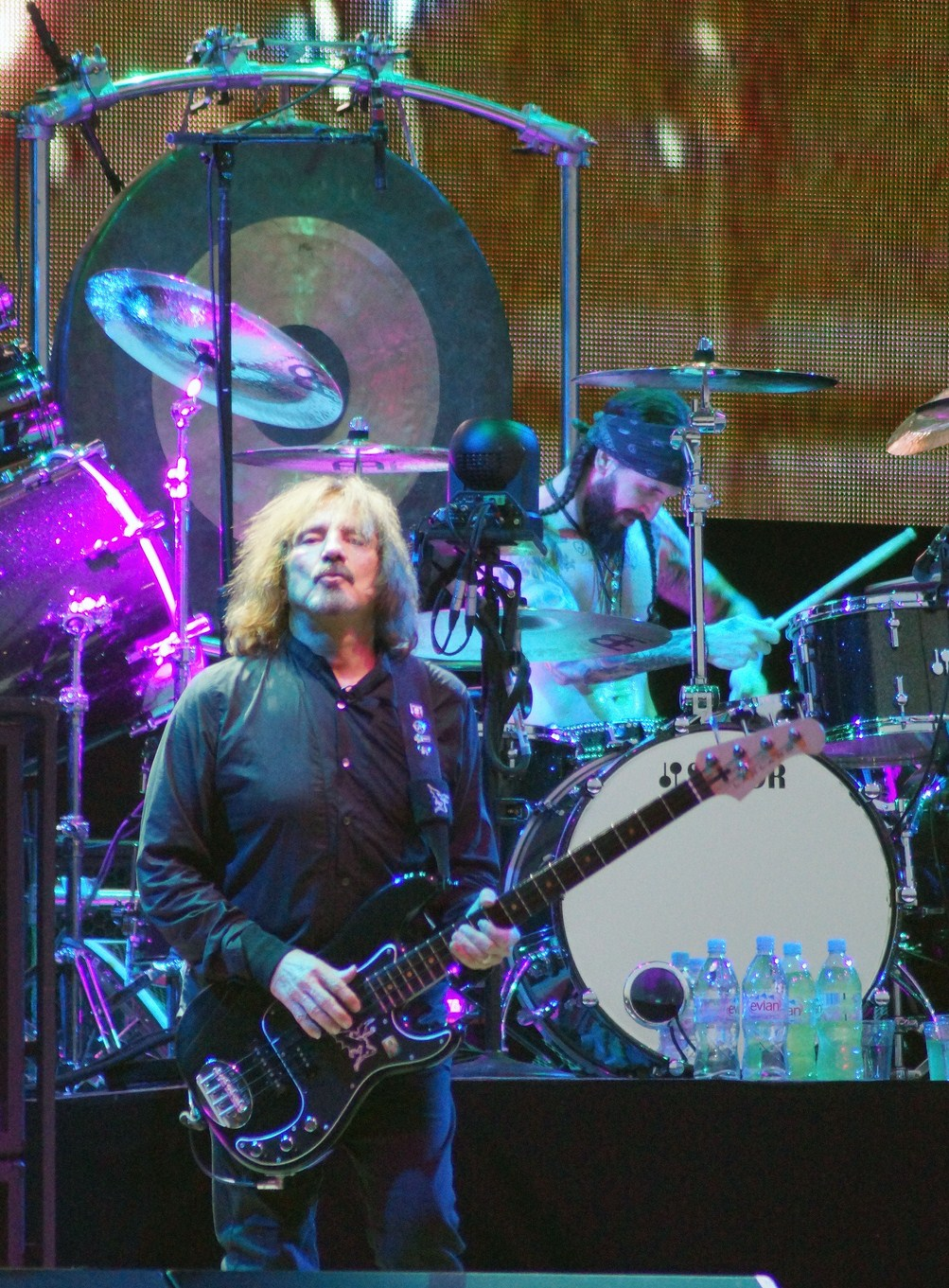 Geezer Butler and Tommy Clufetos of Black Sabbath performing live at Lollapalooza 2012.